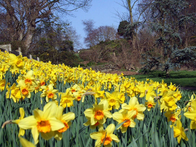 Guy. L. Wilson Daffodil Gardens, Coleraine. Daffodil Gardens in the grounds of the Univ of Ulster, Coleraine Campus.